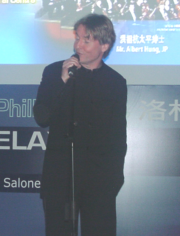 Esa-Pekka Salonen at the Los Angeles Philharmonic concert in Hong Kong Cultural Centre on 29 October, 2008.